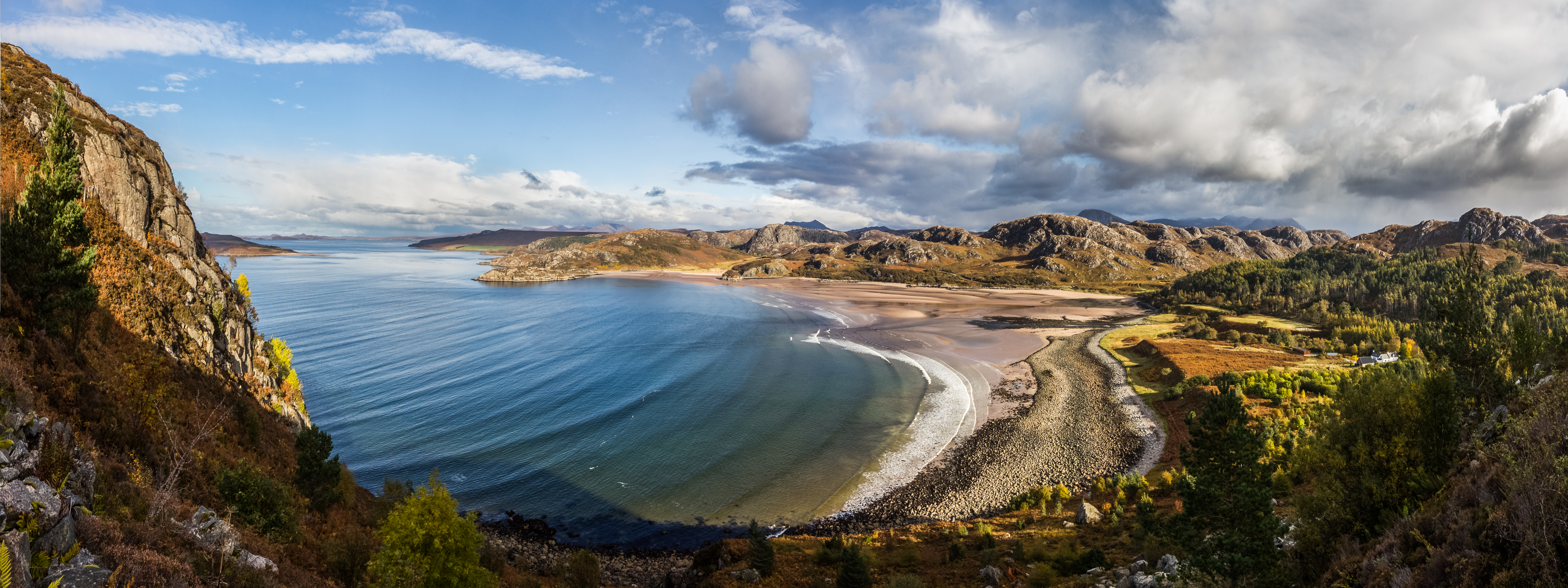 Panorama looking North down onto the beach at Gruinard Bay at roughly half tide. Gruinard Island can be seen behind the rocks in the foreground on the left. The Summer Isles can be seen behind Gruinard Island and the village of Achiltibuie is just visible in the background across the sea.